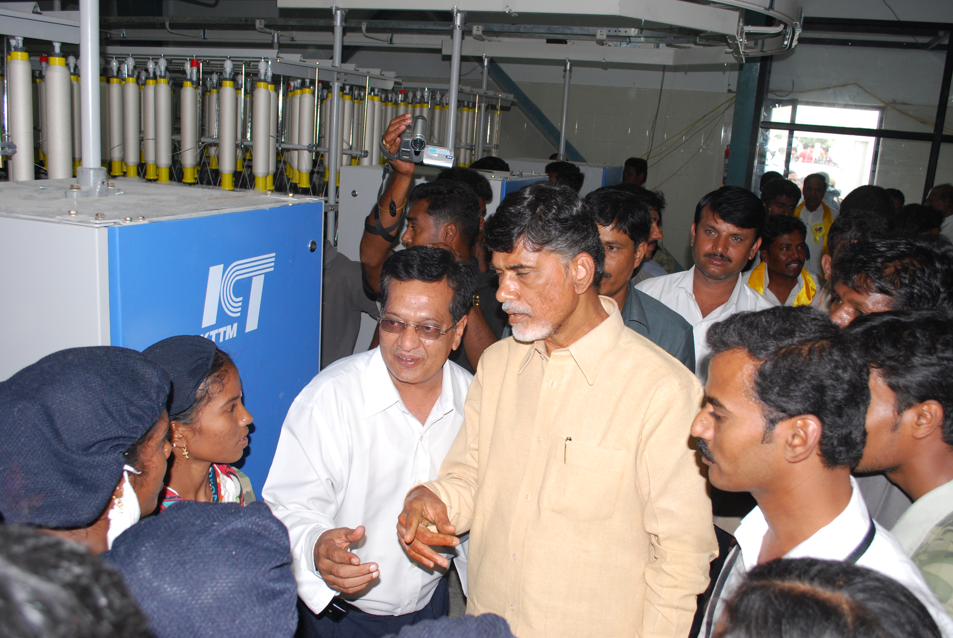 Spinning Mill complex